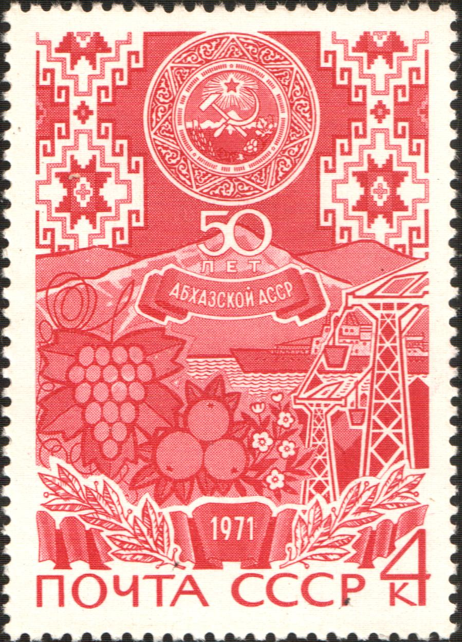 USSR stampː Abkhaz Autonomous Soviet Socialist Republic (Established on 1921.03.31). Seriesː 50th Anniversary of the Autonomous Republics of the Soviet Union